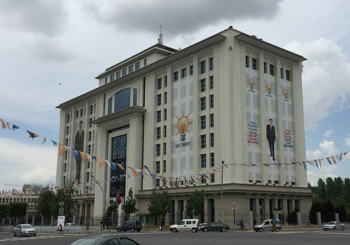 The Justice and Development Party (AKP) headquarters in Ankara, draped in party flags featuring its leader, Ahmet Davutoğlu, on the day of the 2015 general election (7 June 2015)